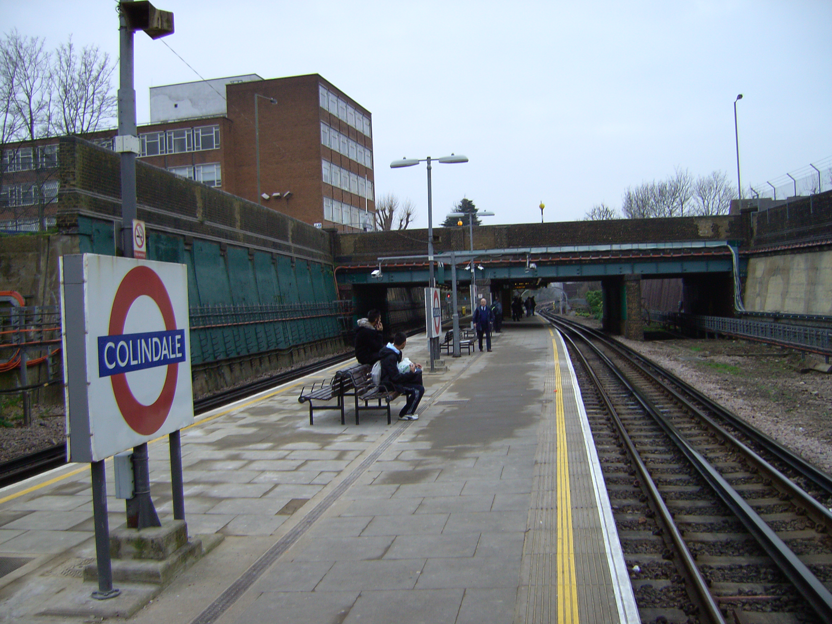 Colindale tube station, view towards the north.